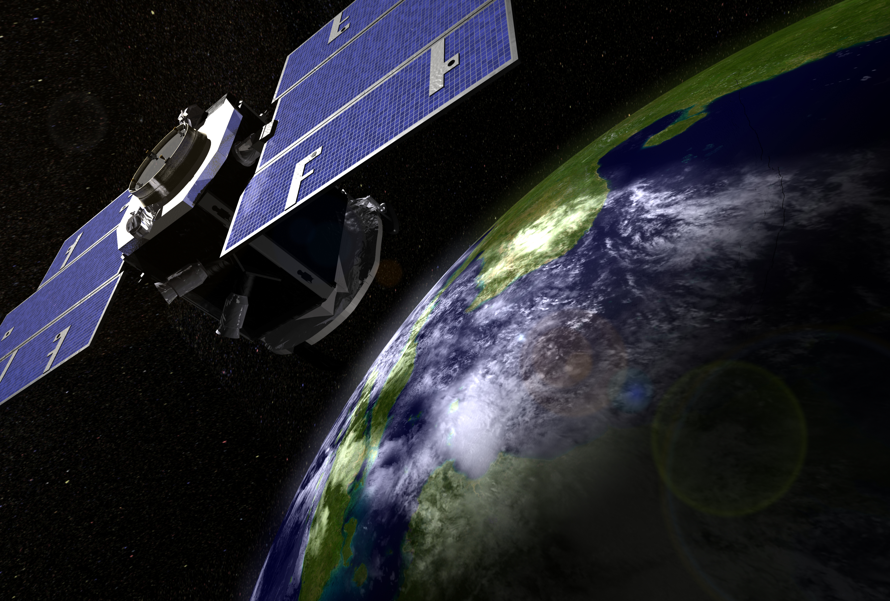 Artist concept of the CloudSat satellite